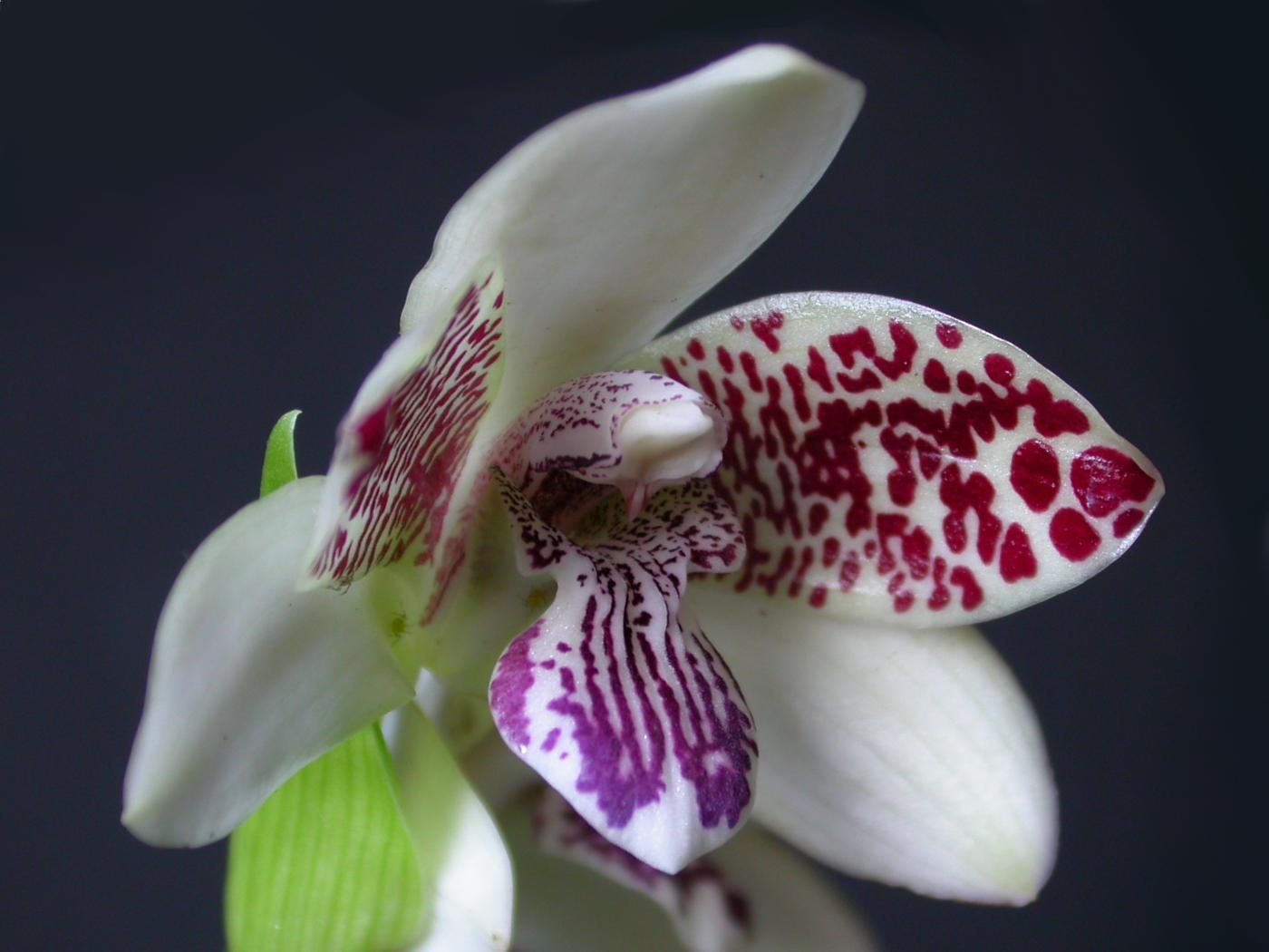 Pabstia jugosa